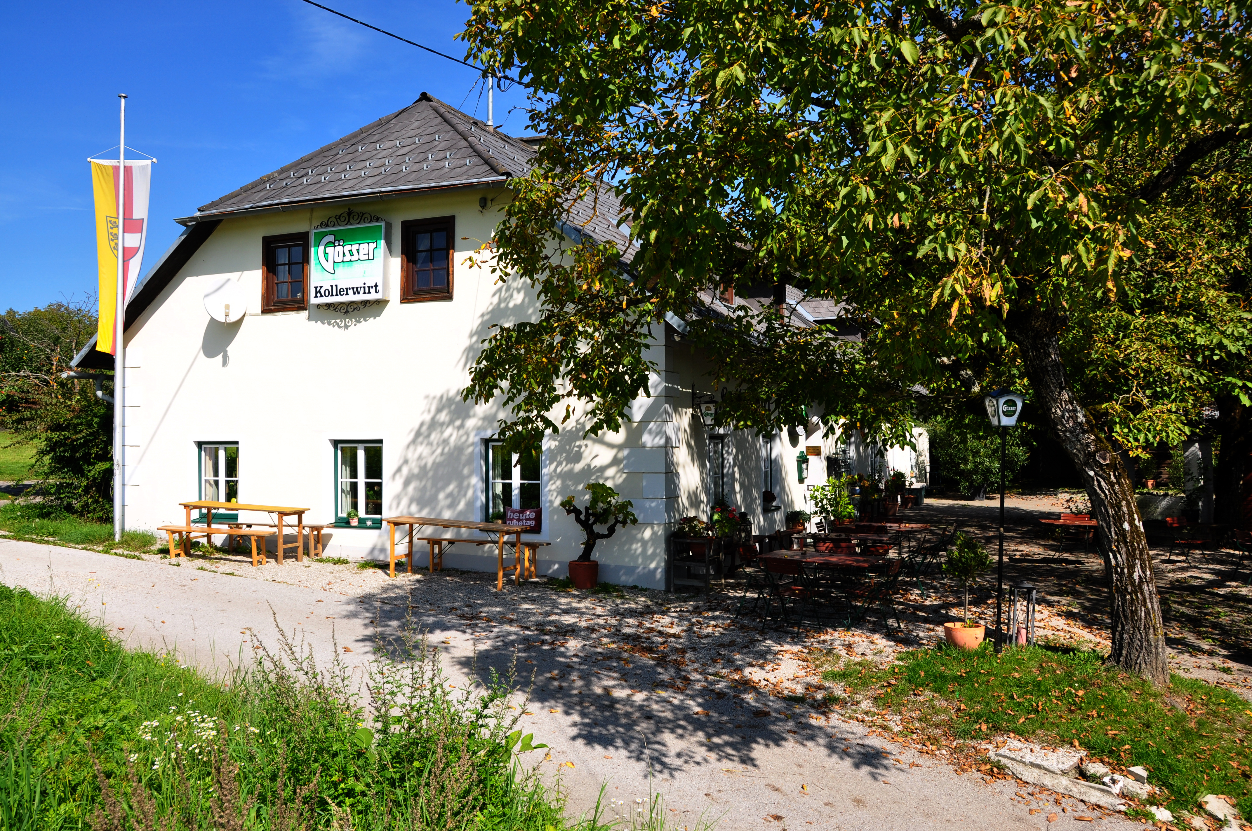 Restaurant "Kollerwirt" at Affelsdorf, municipality Sankt Veit an der Glan, district Sankt Veit an der Glan, Carinthia, Austria